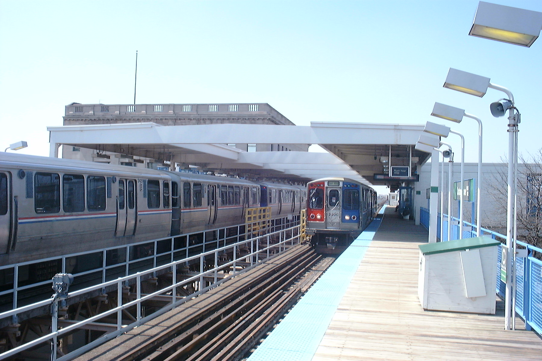 The 'L' Green line station at Cottage Grove. 14 April 2002. Chicago, Illinois.